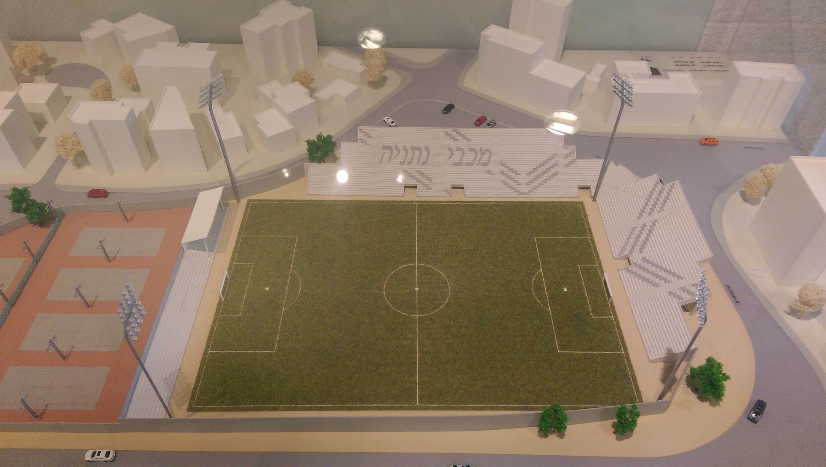 Netanya stadium